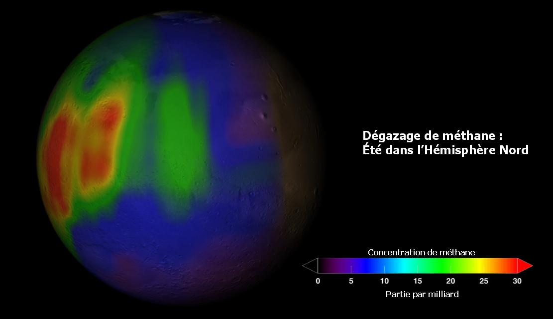 Visualization of a methane plume found in Mars’ atmosphere during the northern summer season.